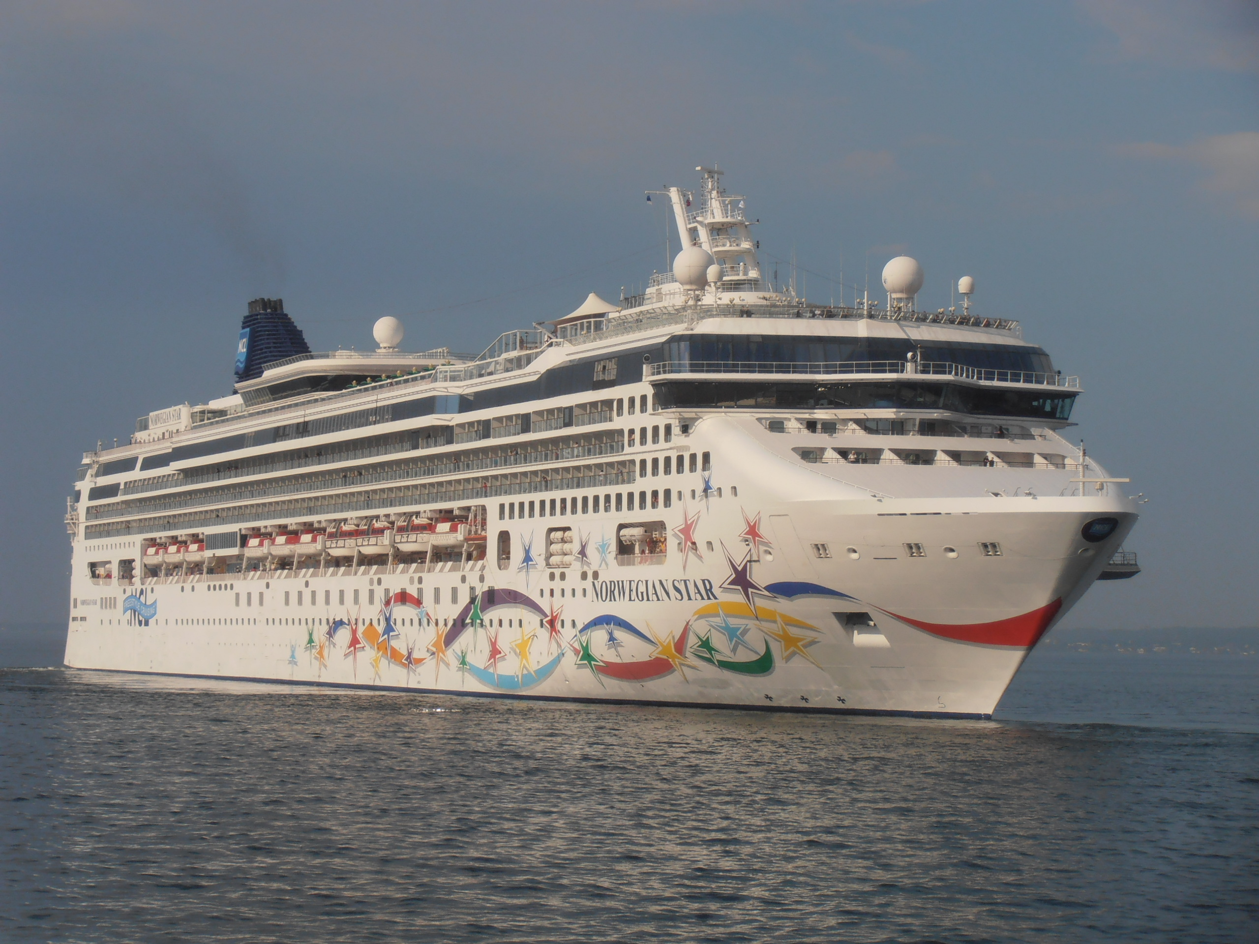 Norwegian Star leaving Tallinn 19 May 2013